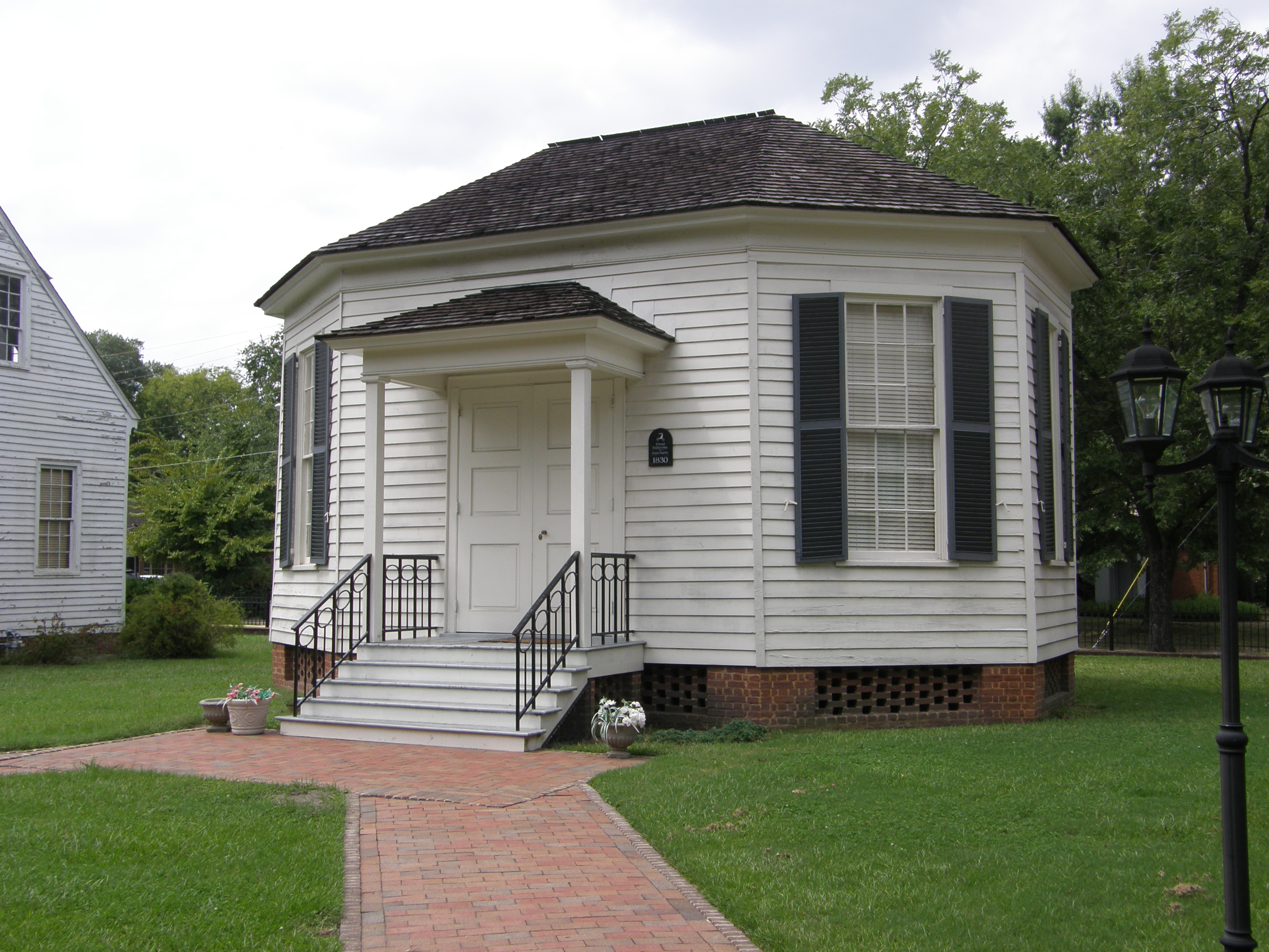 Exterior view of the Oval Ballroom at Heritage Square, Fayetteville, NC